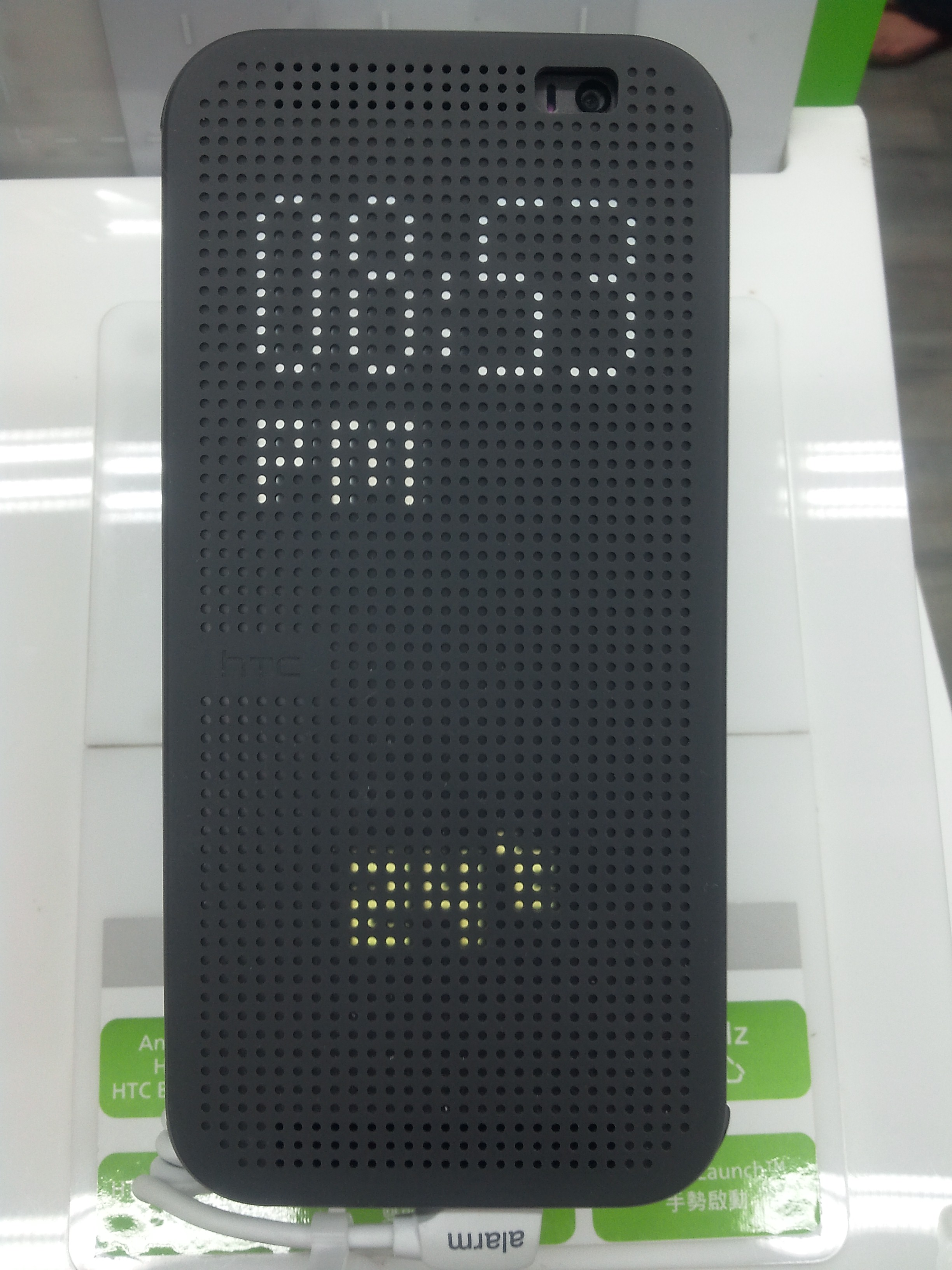 HTC One (M8) with HTC Dot View case